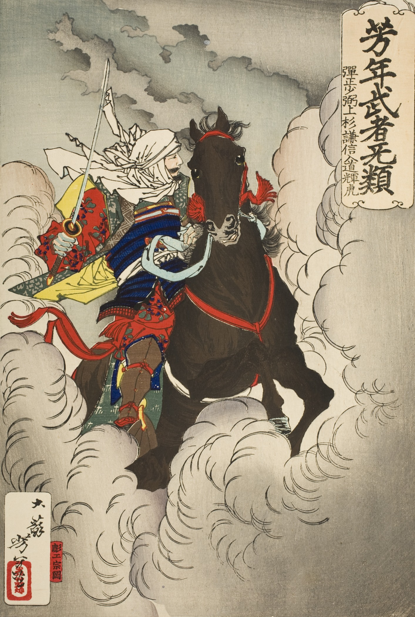 twelfth month, 1883 Series: Yoshitoshi's Warriors Trembling with Courage Prints; woodcuts Color woodblock print Gift of Arthur and Fran Sherwood (M.2007.152.65) Japanese Art